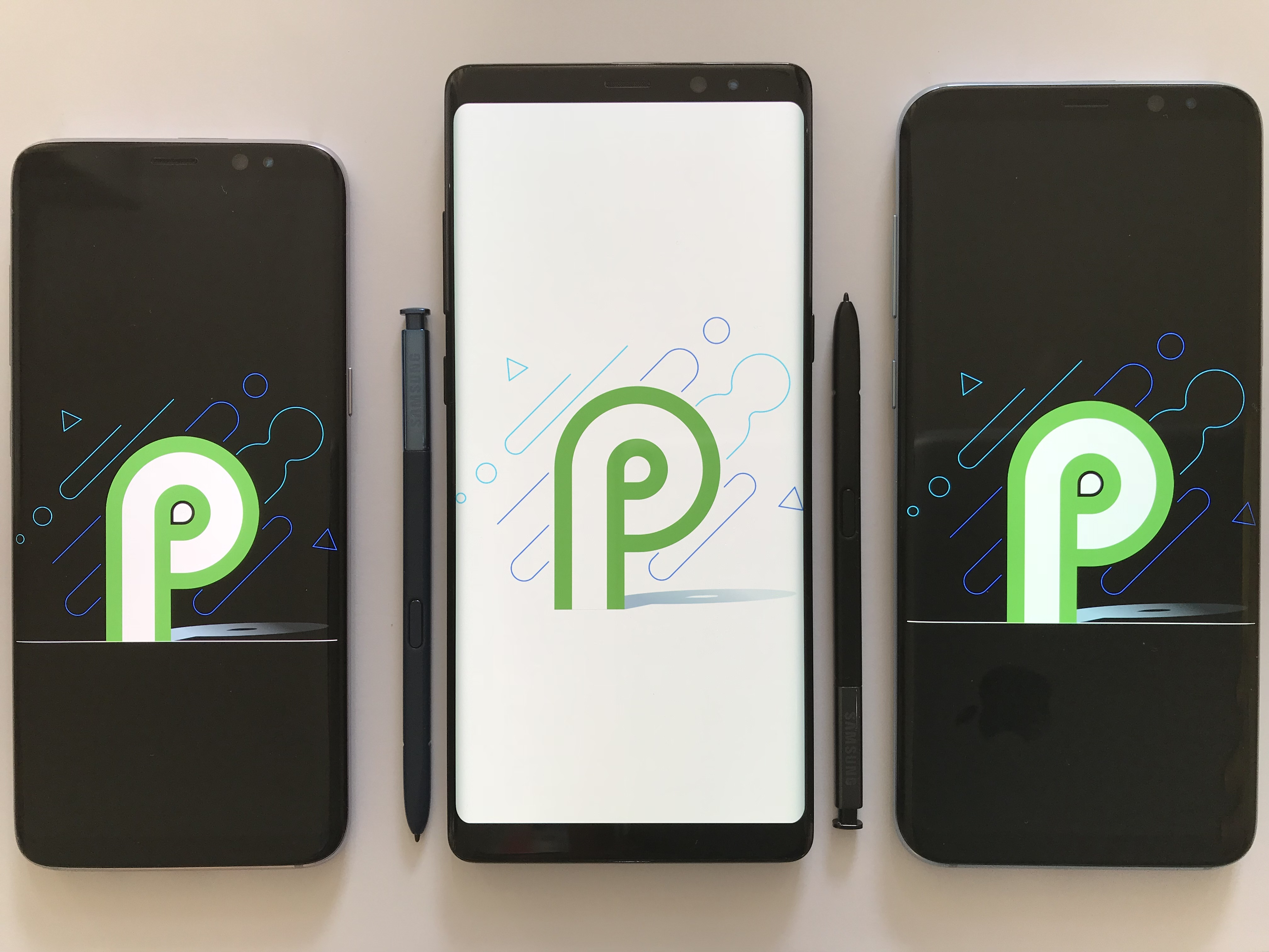 Android P Logo